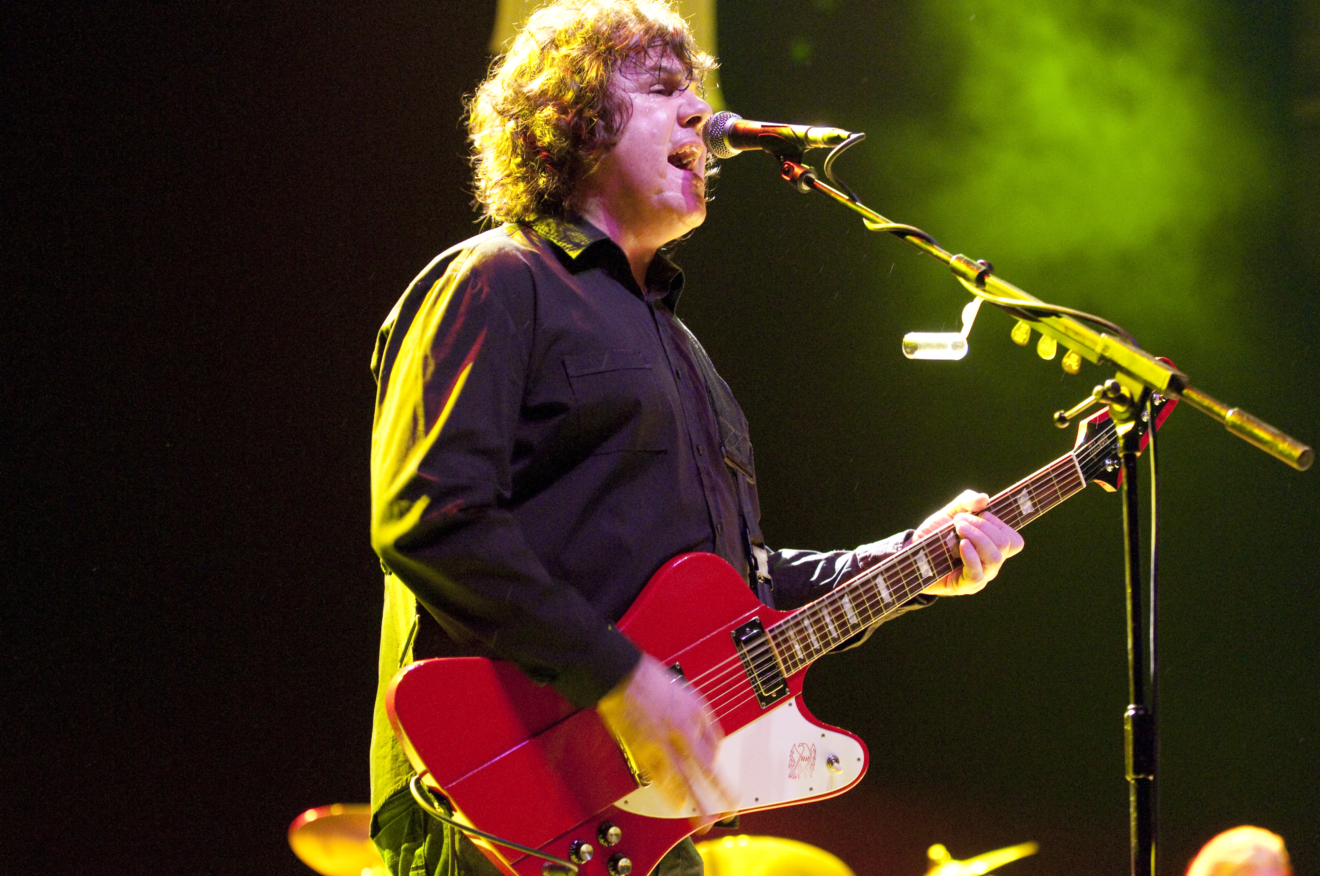 Gary Moore